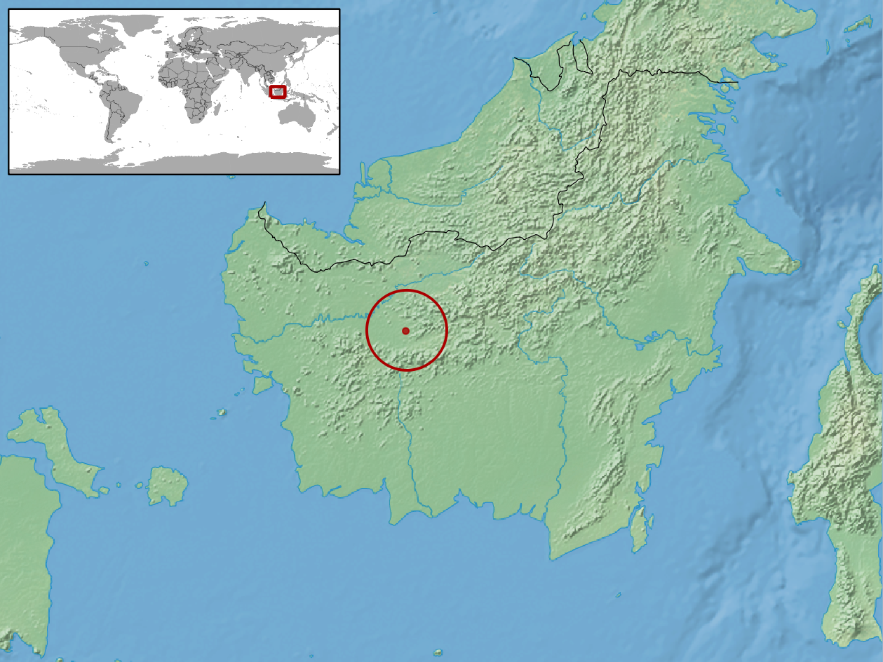 geographic distribution of Calamaria battersbyi (Native: Indonesia (Kalimantan))